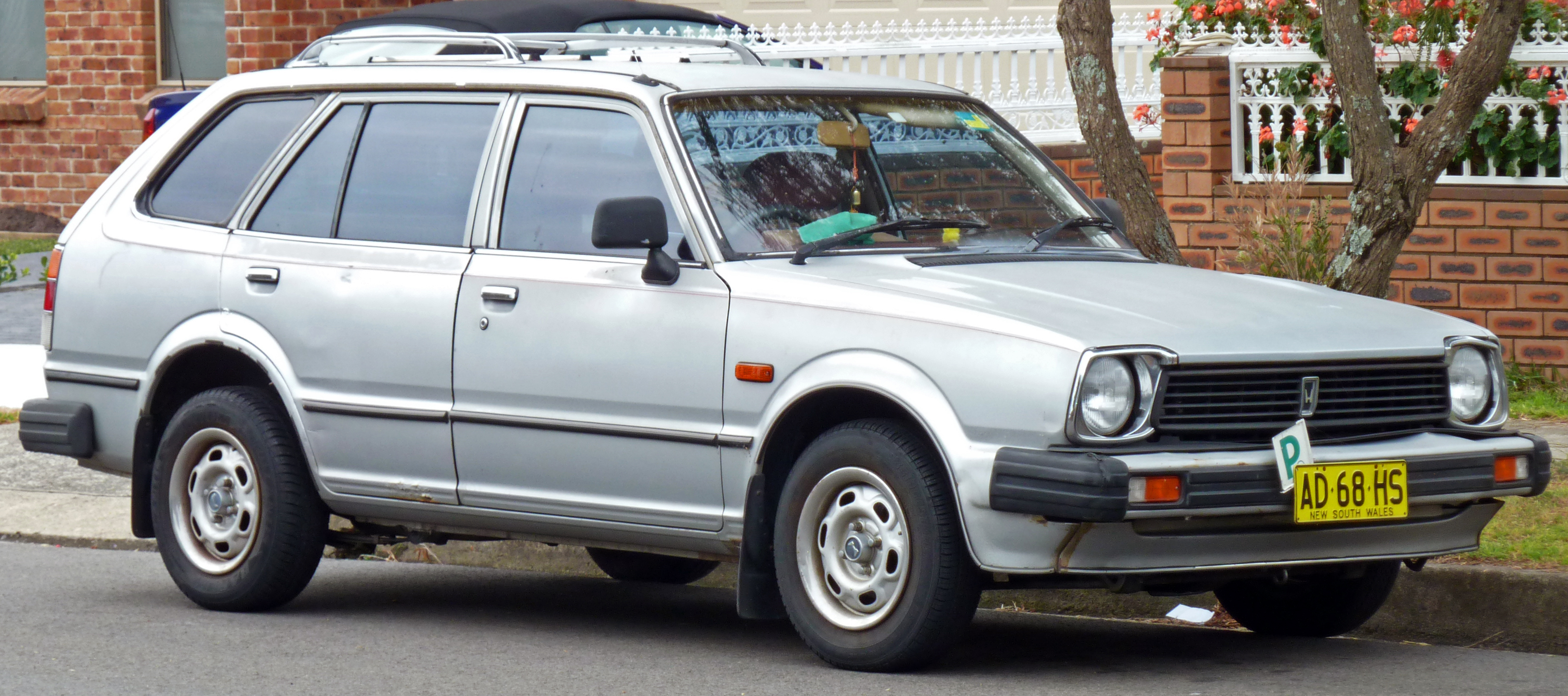 1981 Honda Civic station wagon. Photographed in Sandringham, New South Wales, Australia.